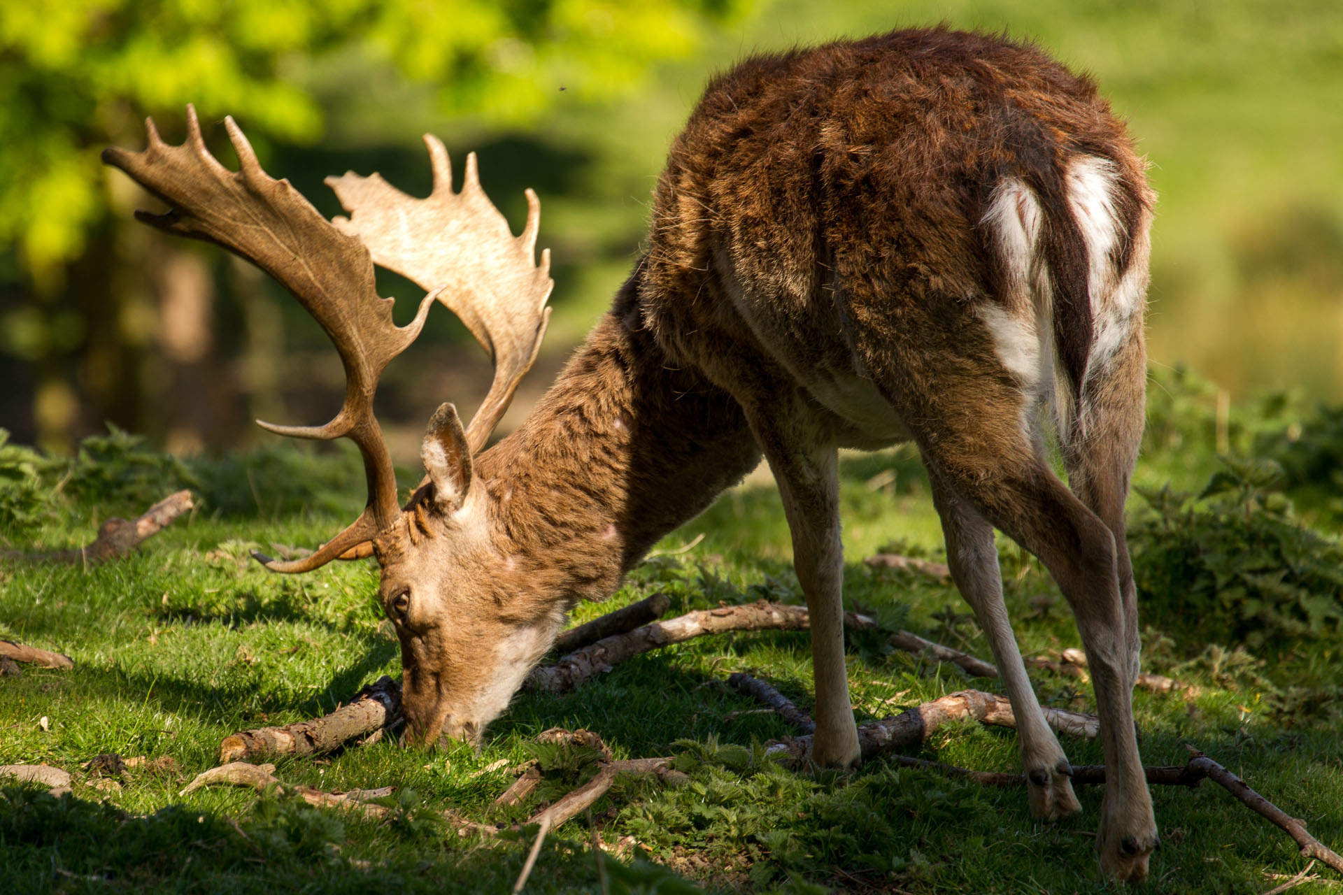 Fallow buck deer with palmate antlers eating grass in sunlight